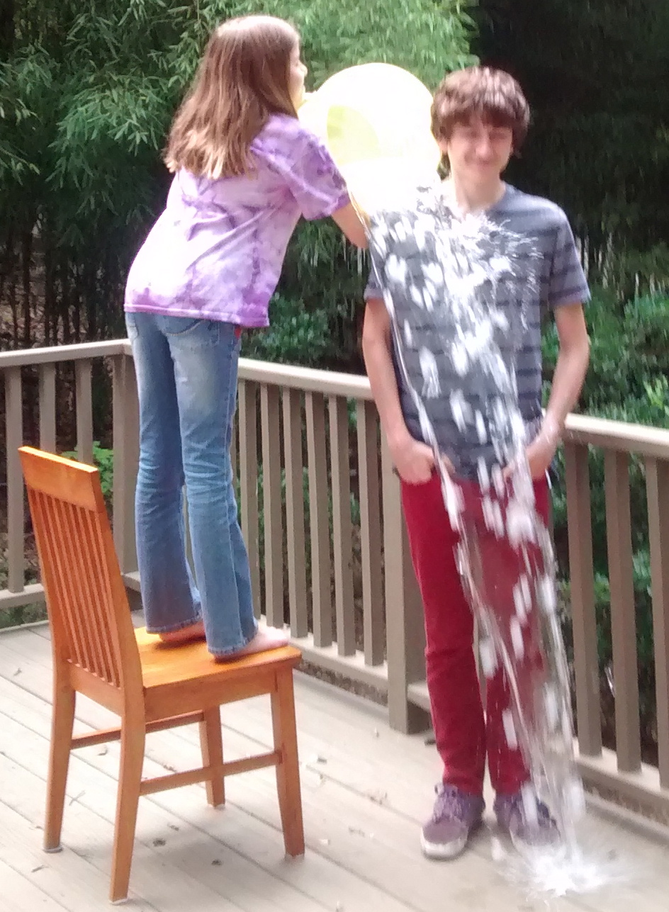 A person doing the Ice Bucket Challenge, with the help of his sister.